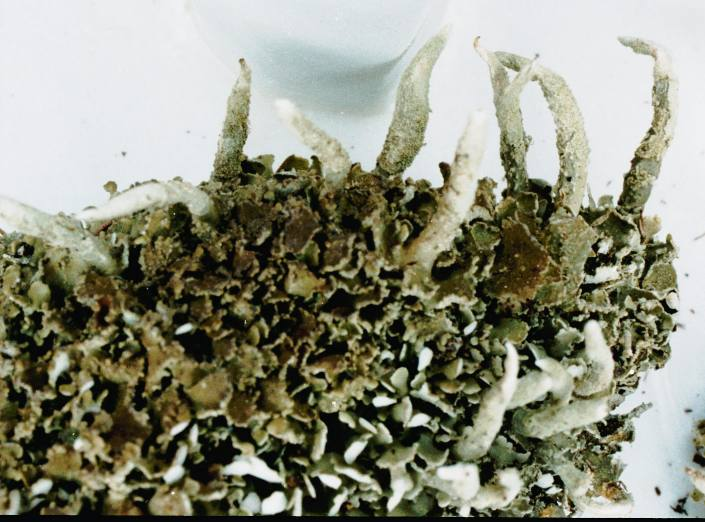 Cladonia coniocraea (Flörke) Spreng., 1827 Photograph of a herbarium specimen. Cladonia coniocraea was growing on bark near the Endless Mountain Retreat, S on County Road 601, approximately 2.4 miles from US 250 in Highland County, Virginia, USA. Collected and identified by E.C. Uebel (No. U-365, 8 Jun 2002).